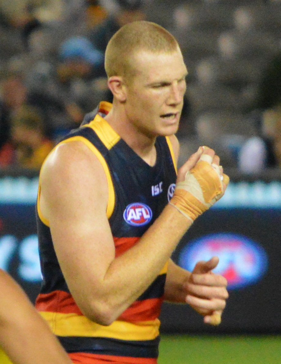 Sam Jacobs during the 2017 pre-season